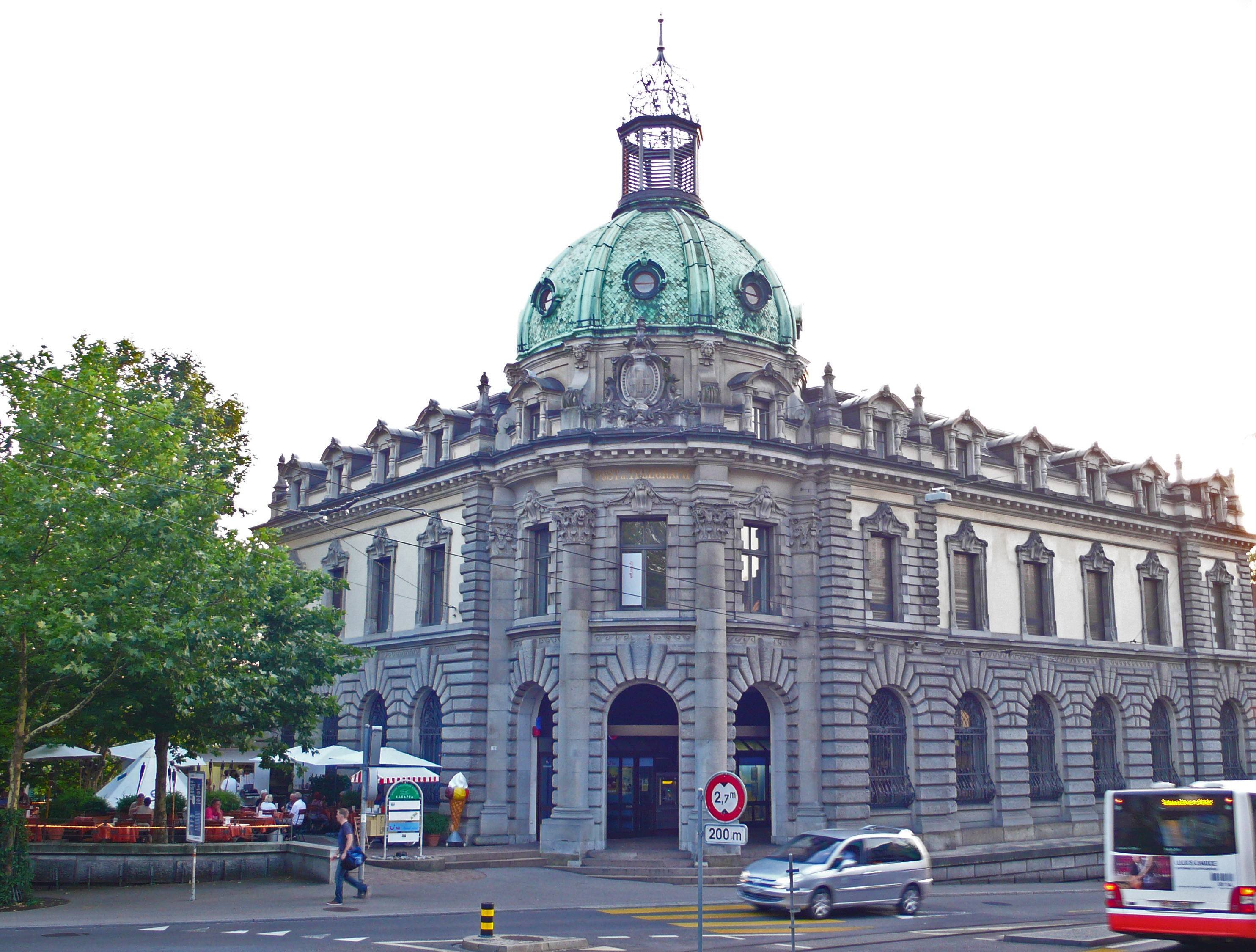 Post office of Frauenfeld, Switzerland.